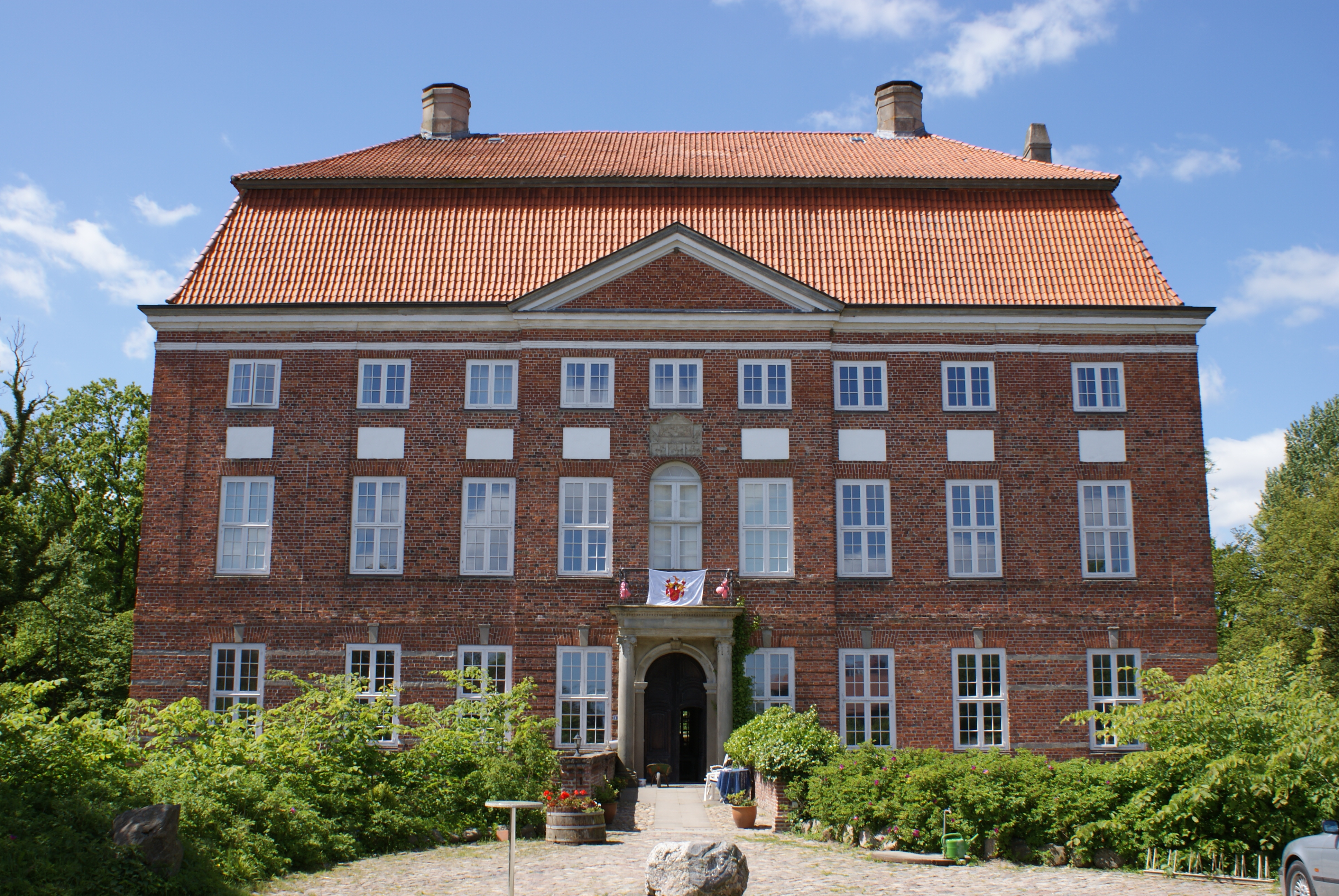 Ludwigsburg Manor